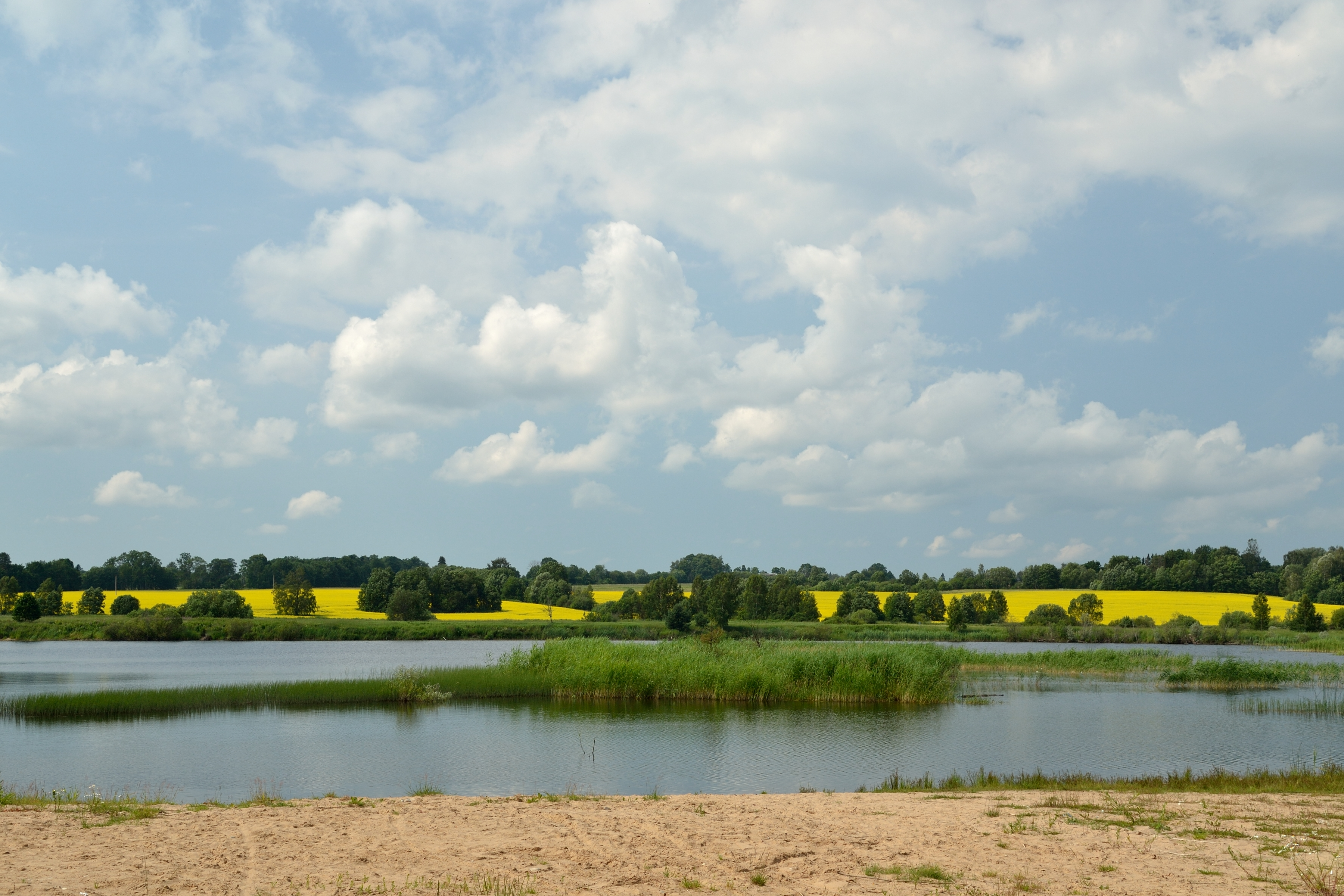 Former gravel quarry (Raudna or Heimtali impounded lake). Lake is on Raudna nature reserve territory.